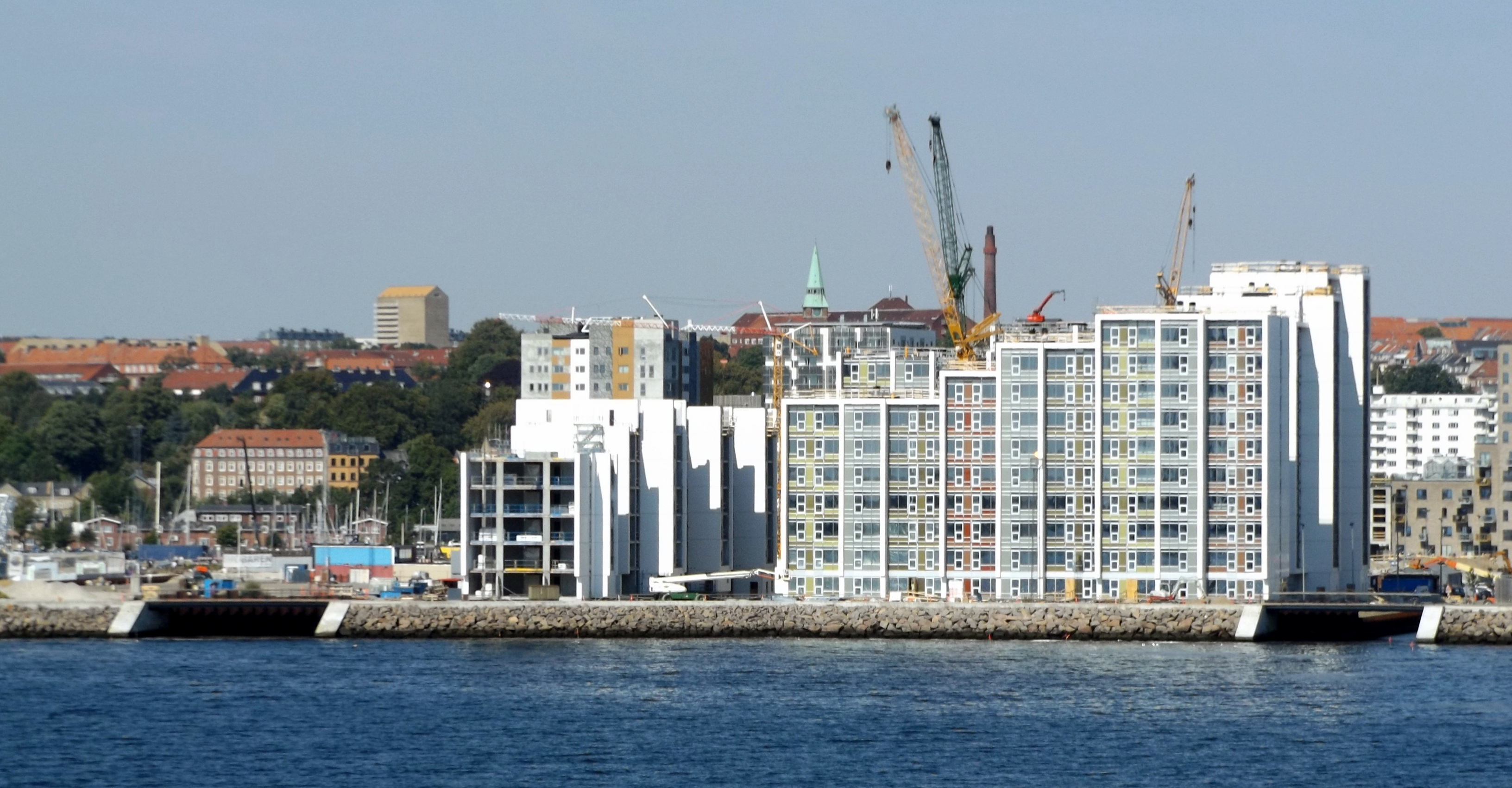 Aarhus Ø from Cruise ship